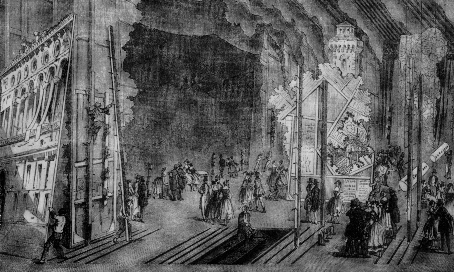 The backstage area of the old Paris Opera (Salle Le Peletier). Lithograph by unknown circa 1855